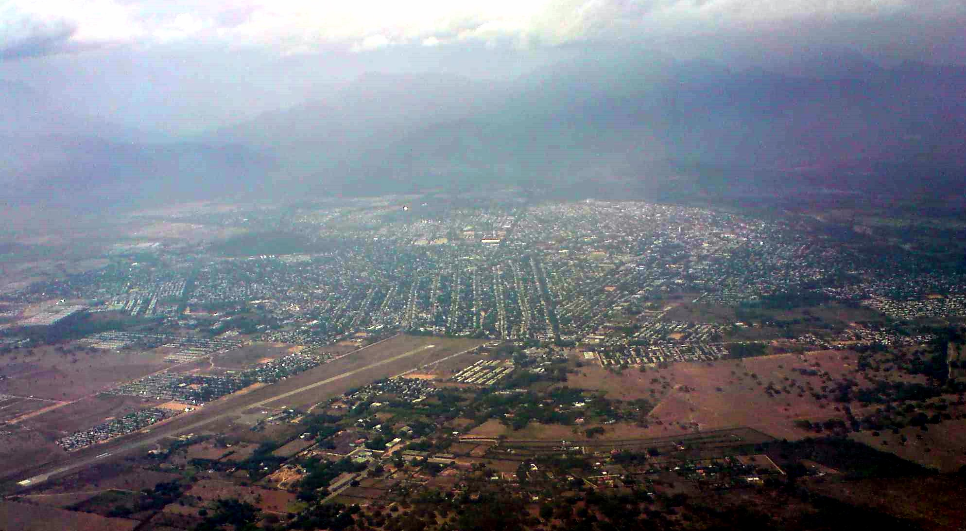 Valledupar from the Air